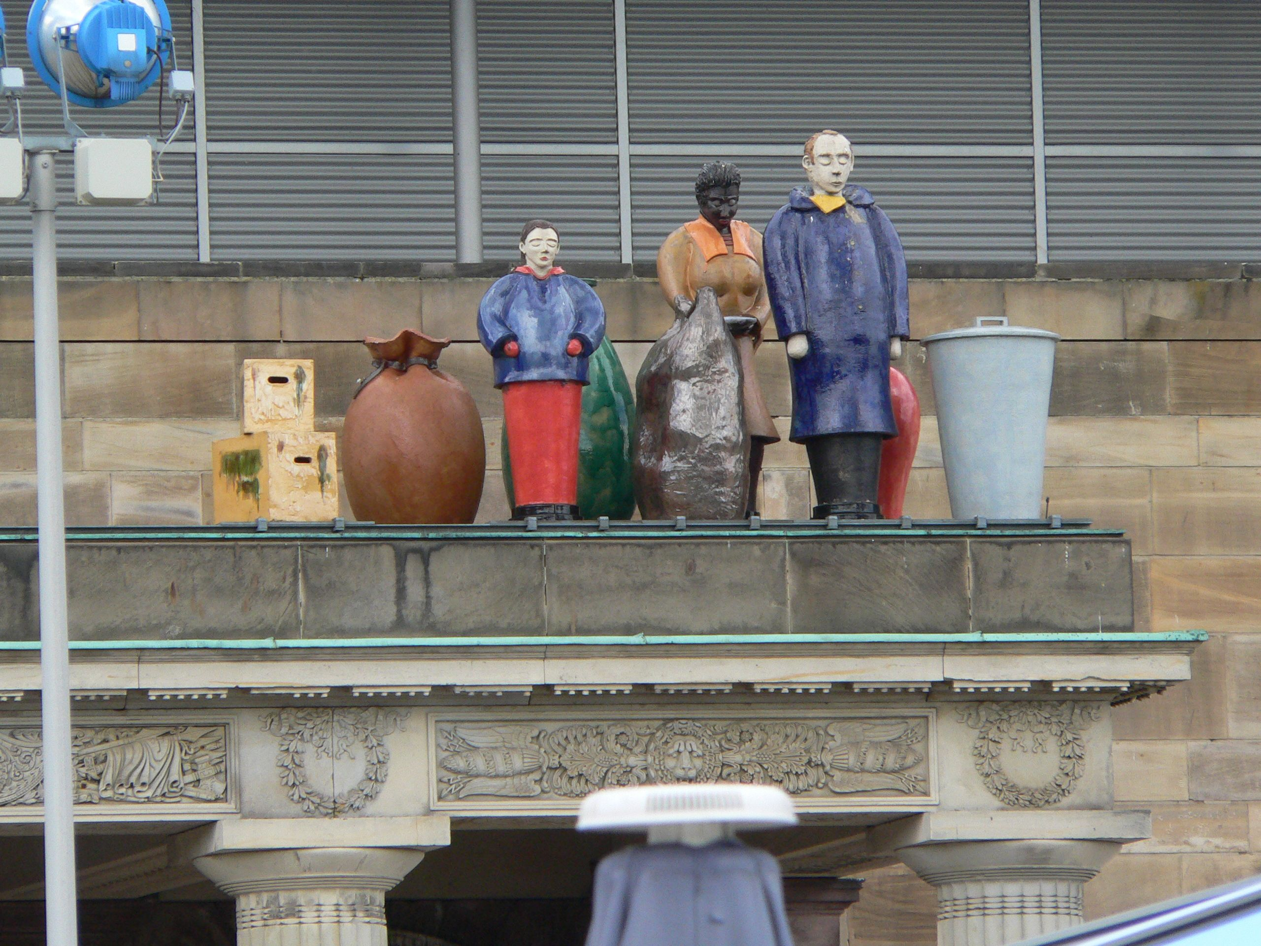 Sculpture group „Strangers“ by Thomas Schütte for the documenta 9 in Kassel